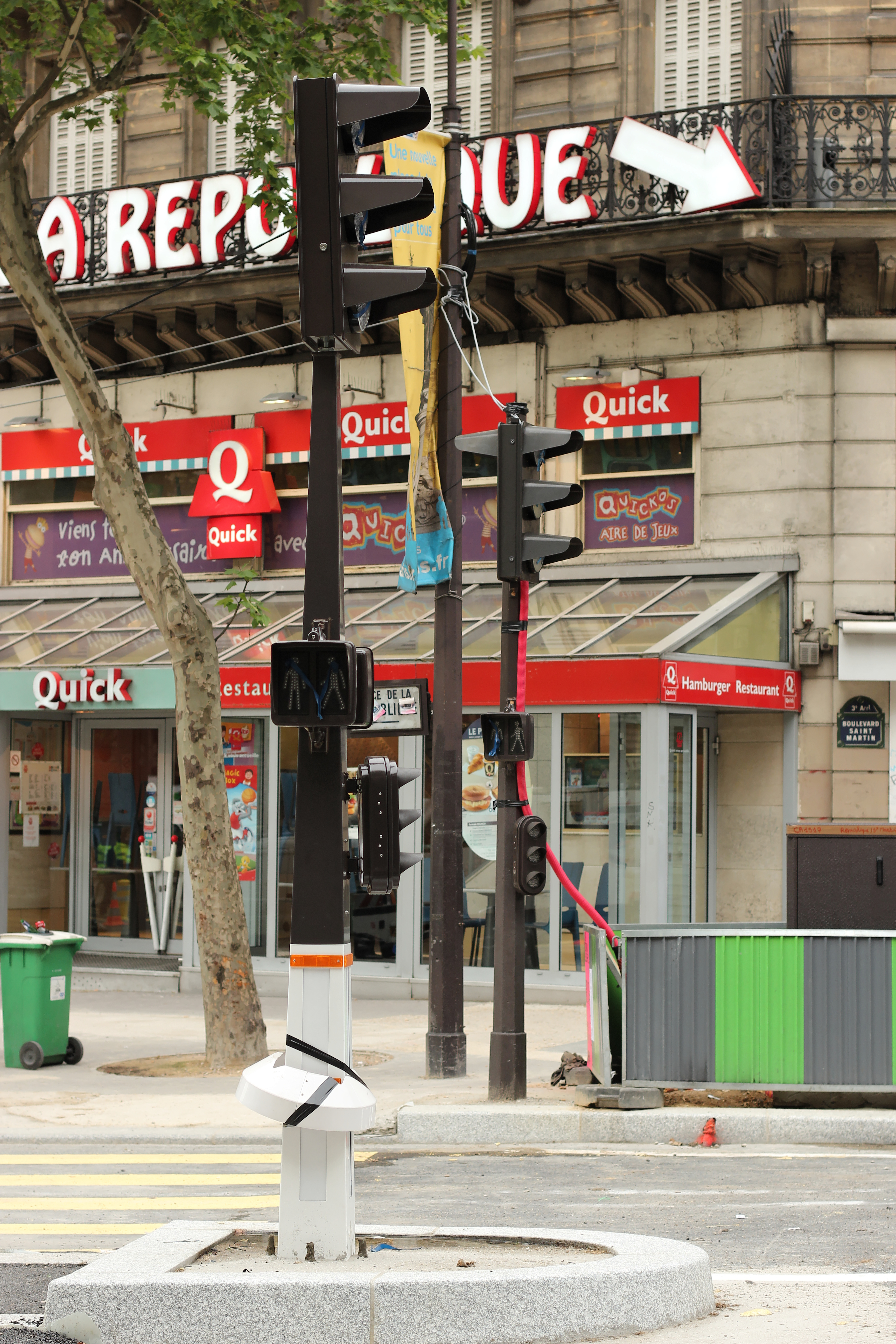 Restructuration of place de la République (Paris). New traffic lights.